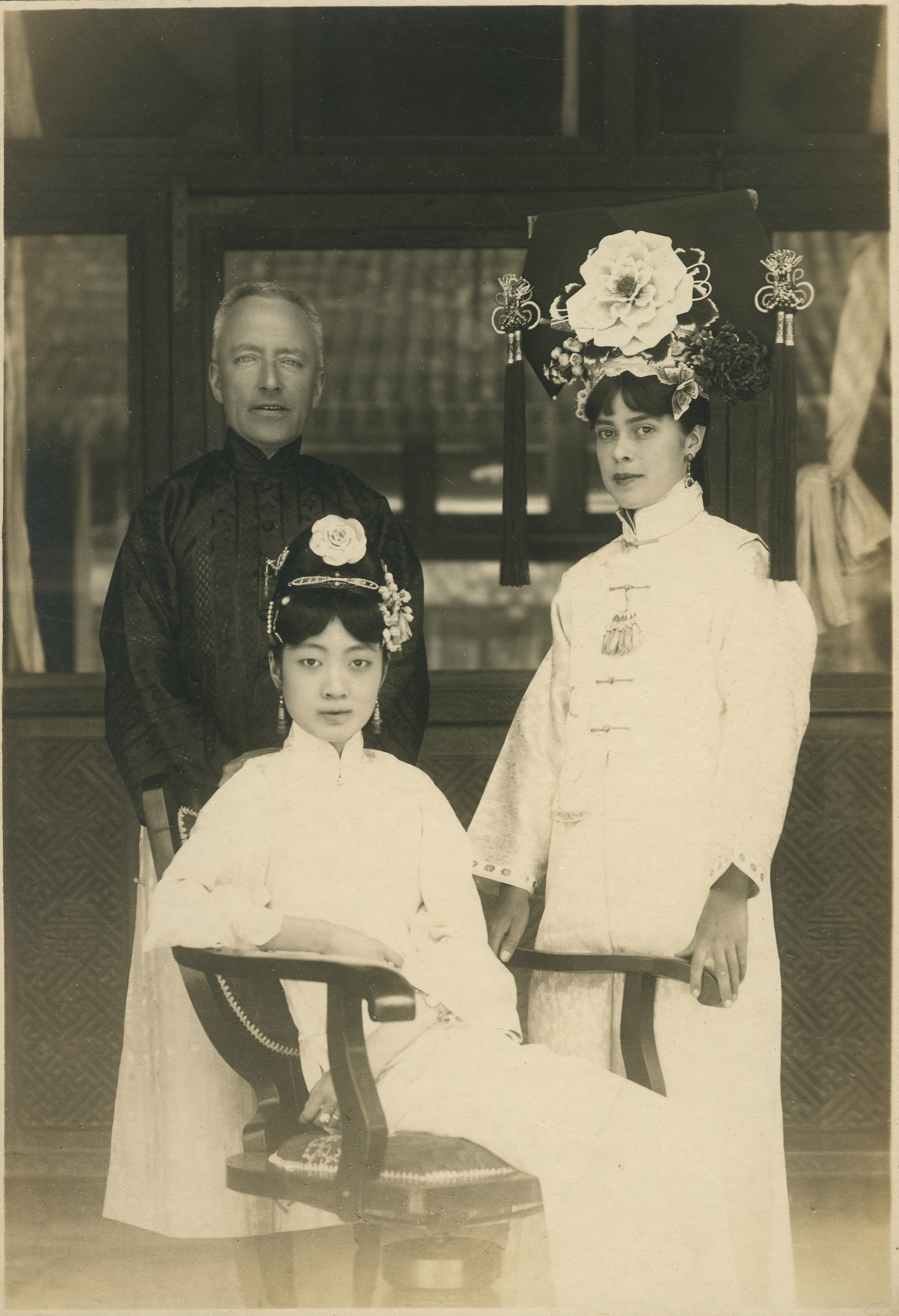 Picture of Reginald Johnston, Empress Wan Rong, and Isabel Ingram in the Forbidden City, Beijing, China. The context of the photo is given by Isabel Ingram's diary entry for June 11, 1924: Went in at 10:30 as usual. Surprised the Emperor playing the piano in the Chien Hsiao Kung. The Empress was combing her hair. I watched the process. The Emperor came in and started to tickle her and was cutting up the whole day. It was suggested that my hair be combed Manchu style again. The Emperor agreed at once and sent for a photographer, also said he would dress Johnston up, too. The Emperor went over for him and brought him back to the Empress's palace before we were ready. They all watched the process. It took quite awhile -- making new parts, etc. Liu combed it again. I wore a light green gown with a lavender chin shih, which the Empress gave me afterwards.